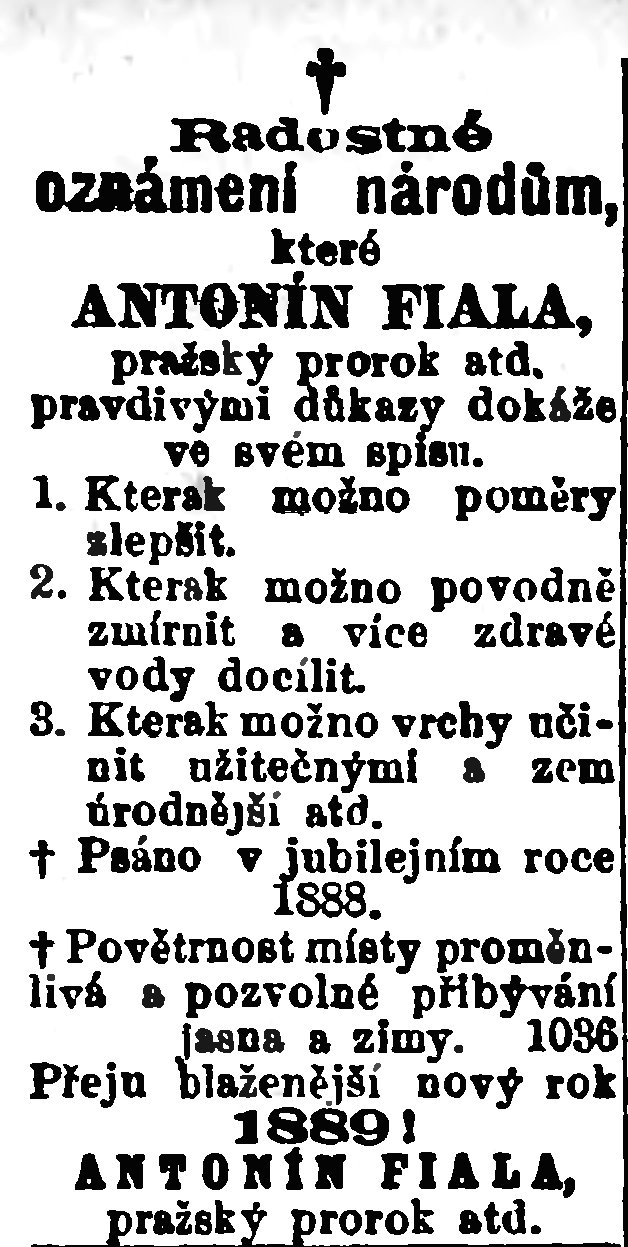 Classified ad, announcing a never-published book by an excentric amateur meteorologist.